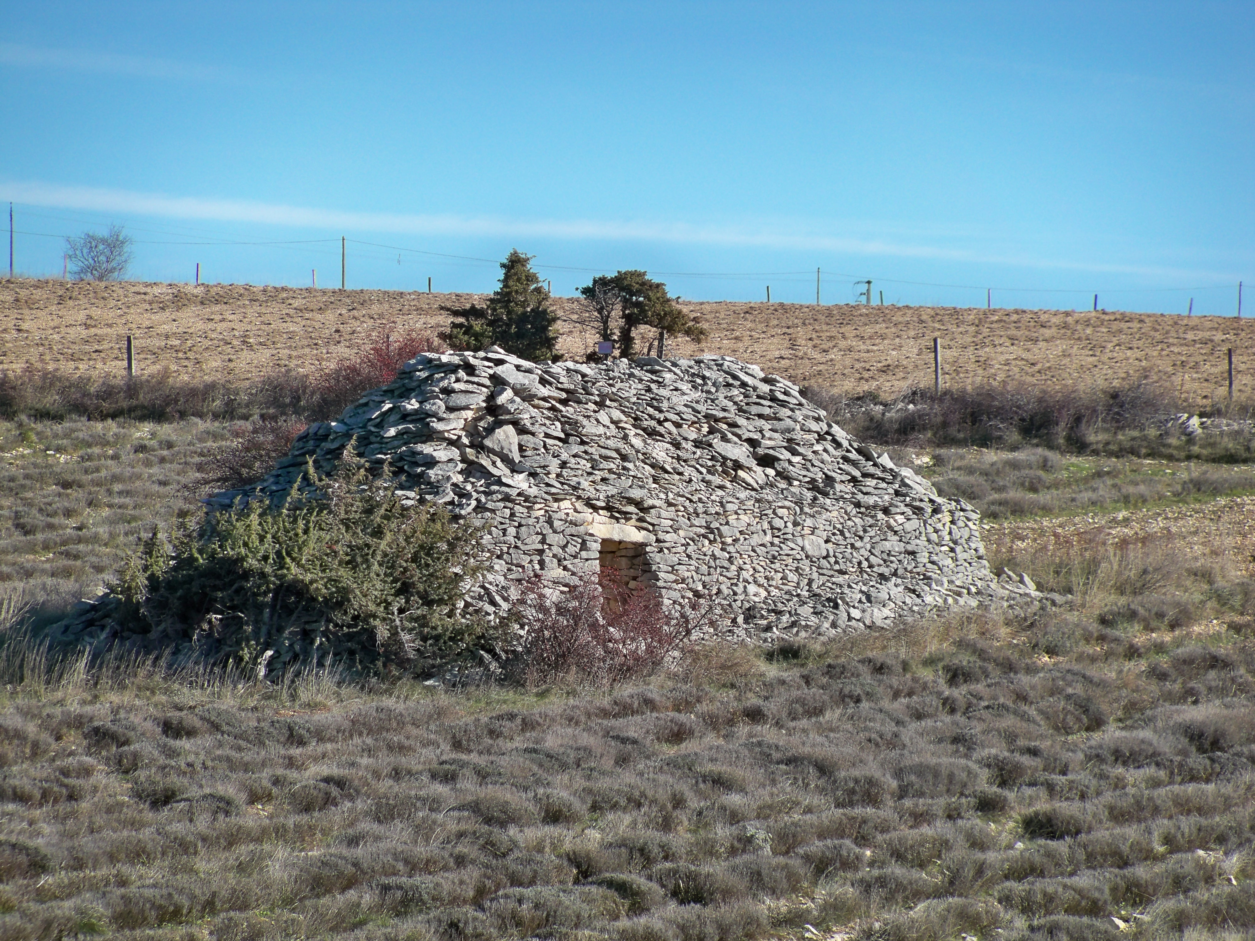 Dry stone hut or borie in a lavanda field in winter, at Ferrassières, Drôme département, France.